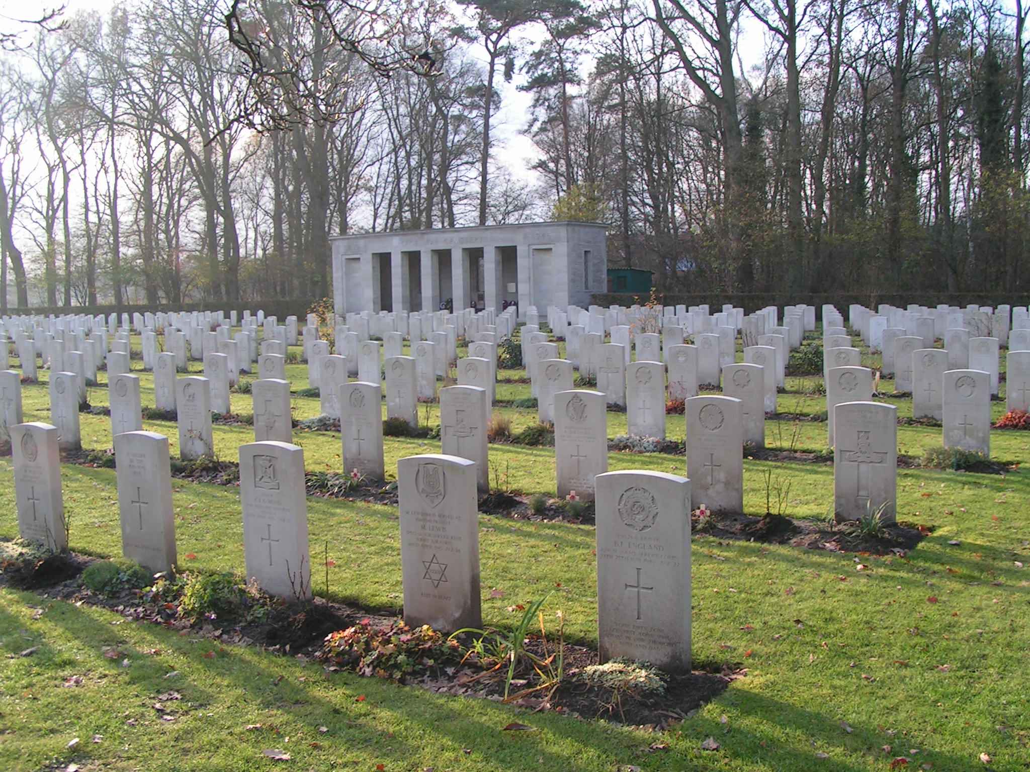 Sage War Cemetery near Oldenburg